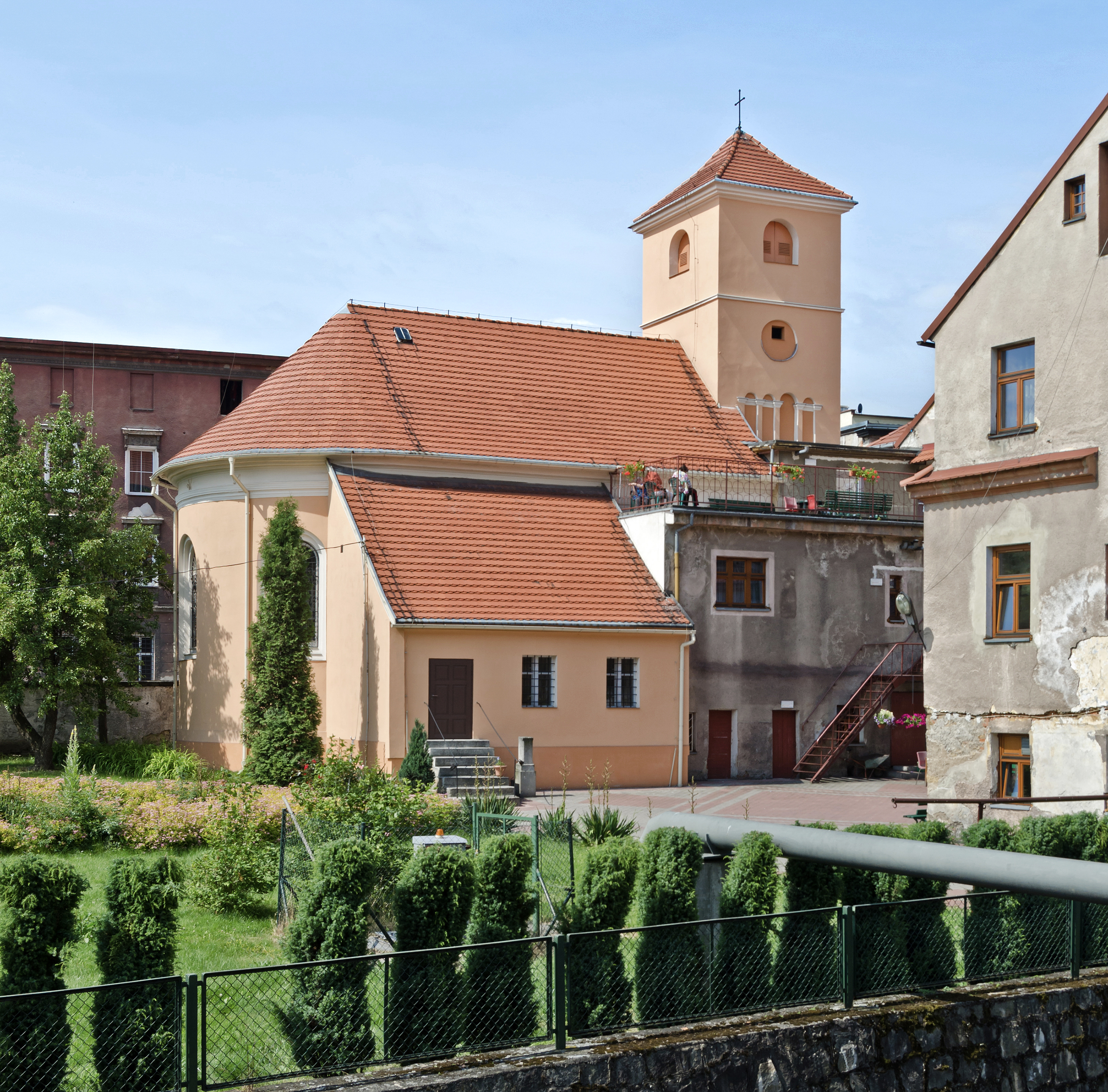 Saint John of Nepomuk church in Bystrzyca Kłodzka